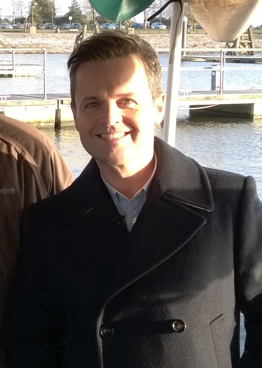 Cropped image of Declan Donnelly (of Ant and Dec) in Cardiff Bay.